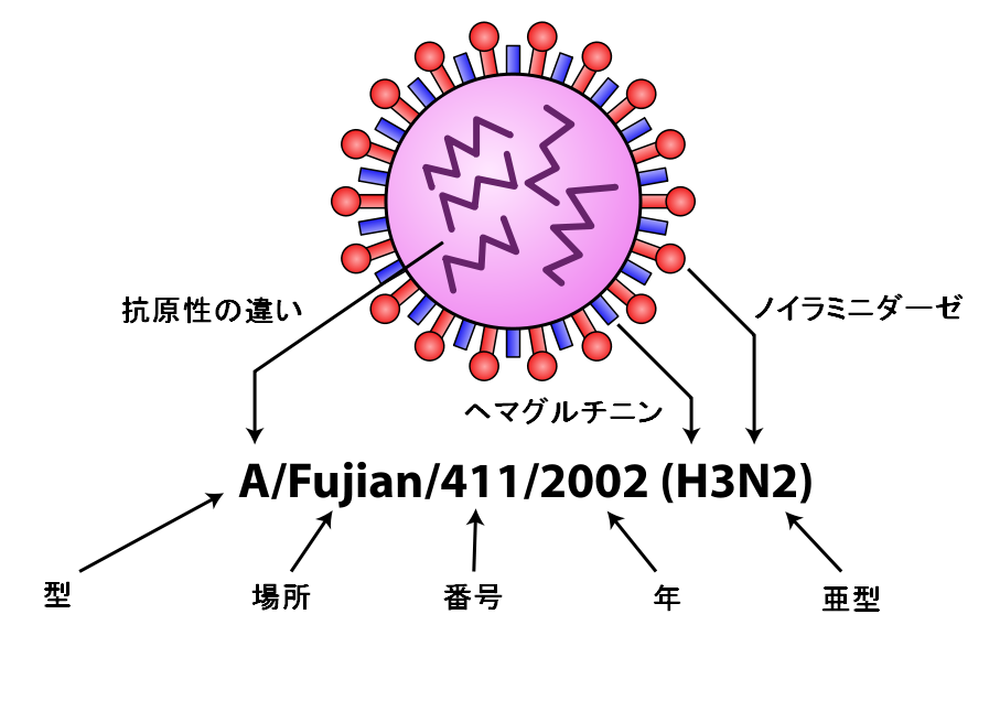 Illustration of influenza virus nomenclature system.